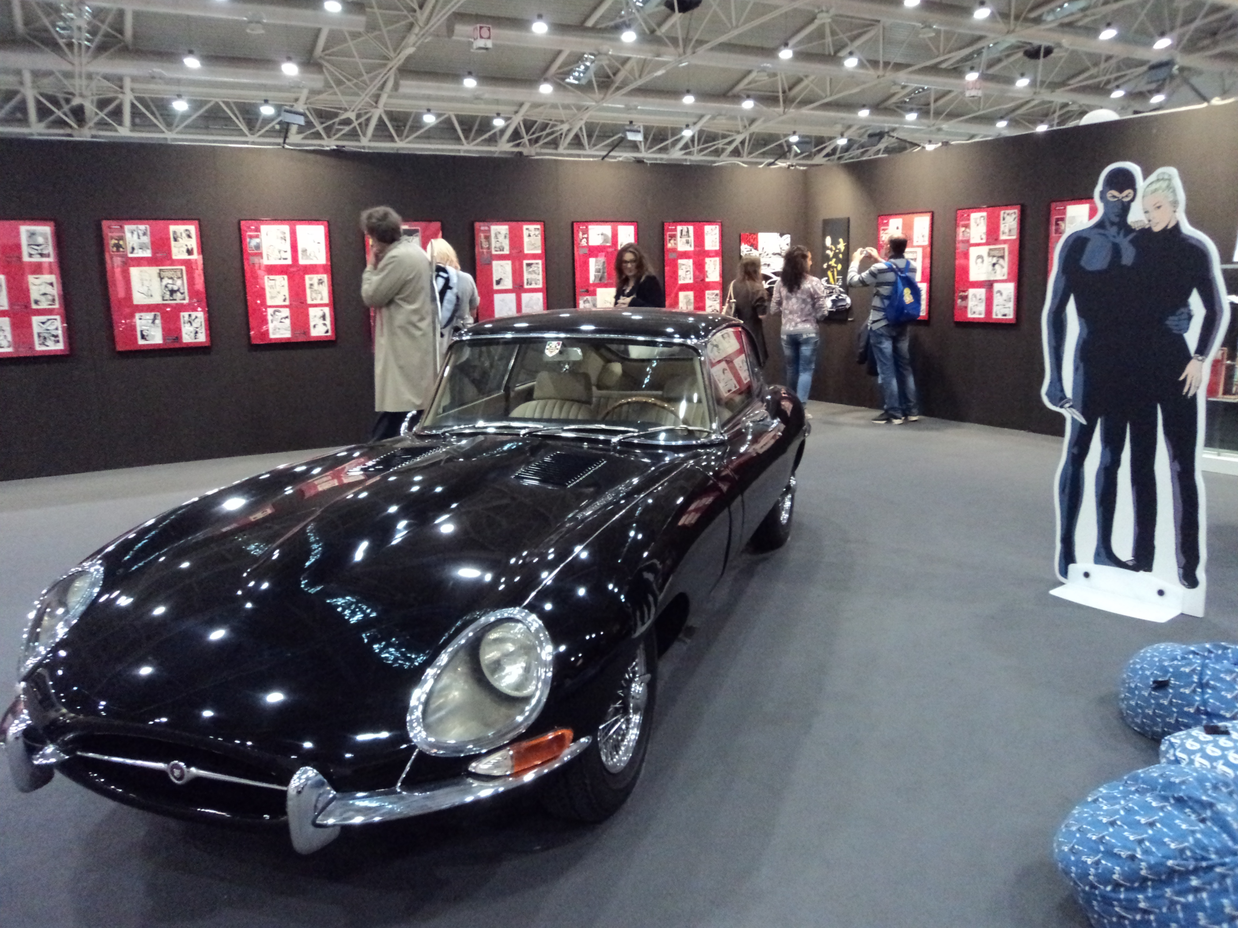 Romics 2015 - Autumn Edition